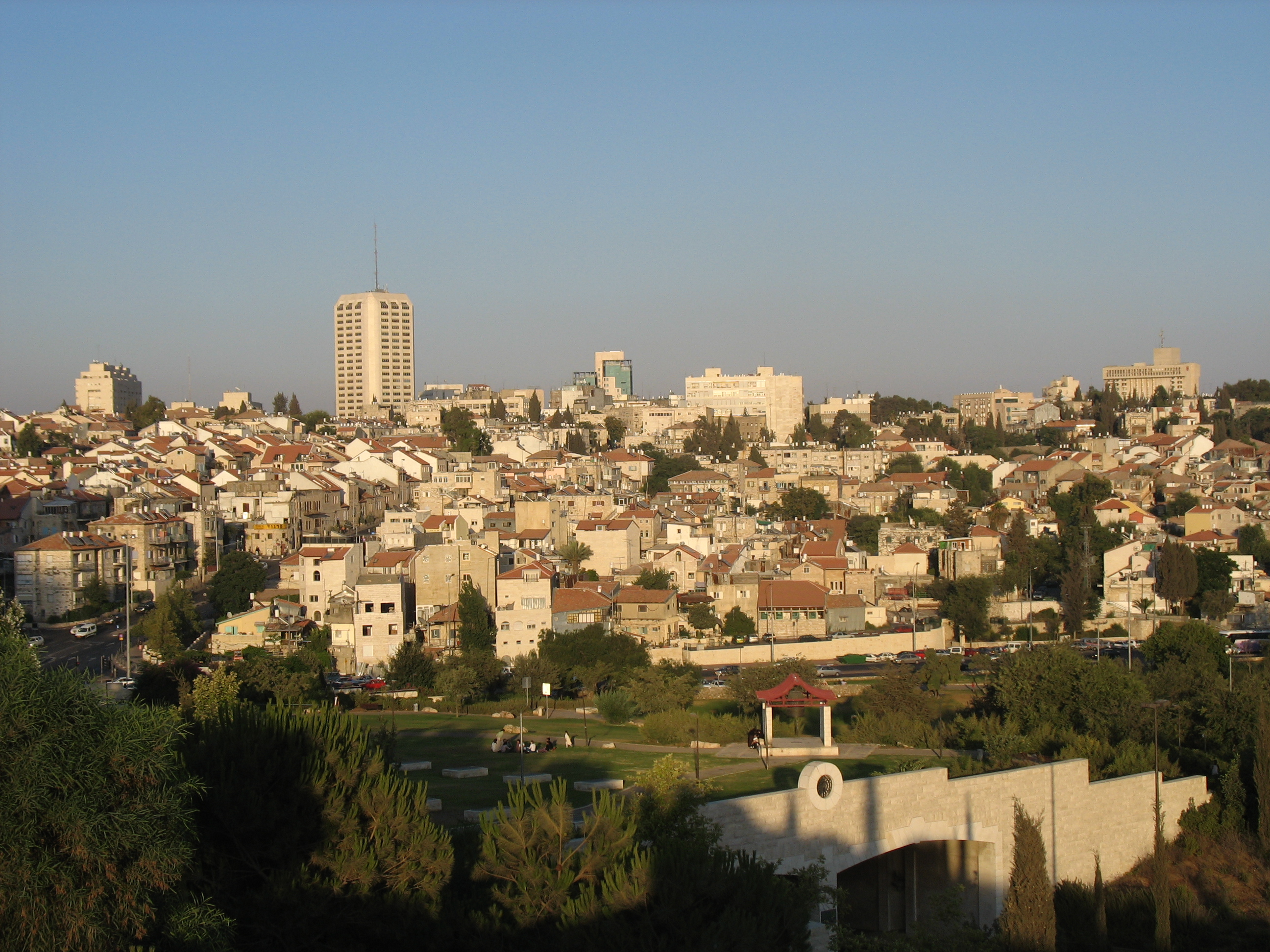 An view on Nachlaot neighborhoods in Jerusalem in the late afternoon. Some building in the city center and the northen part of Sacker garden can also be seen.